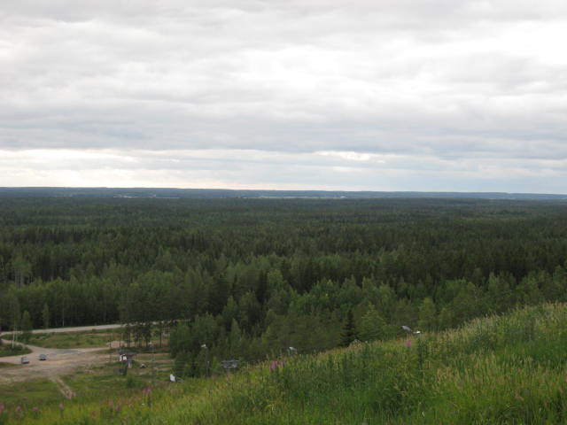 View from Bötombergen hill, Kristinestad, Finland.